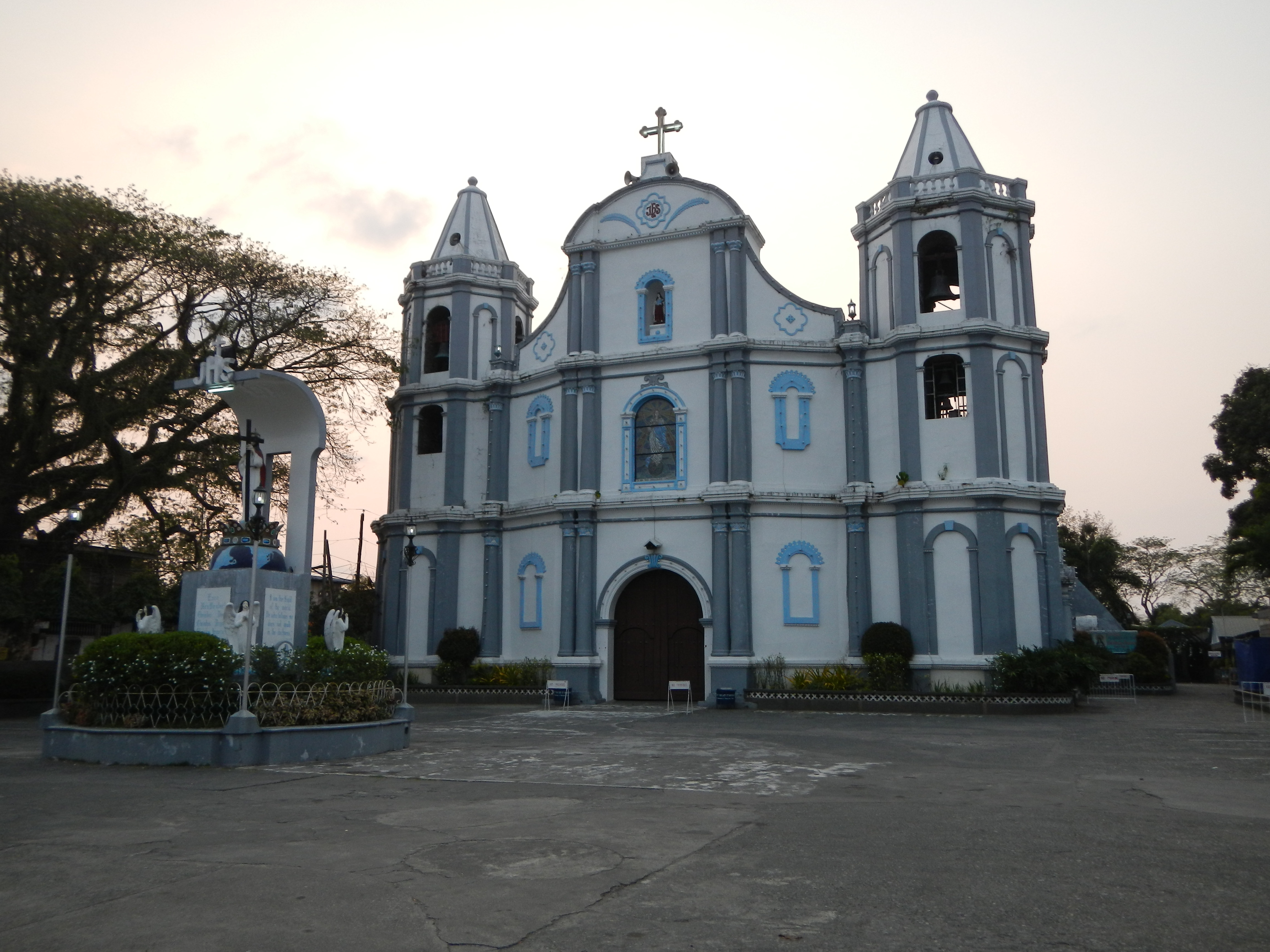 Luna, La Union Union La Union province Our Lady Apo Baket of Namacpacan Saint Catherine of Alexandria Parish (Shrine of Our Lady of Namacpacan) [1] Santa Catalina de Alejandria built in the 18th-19th centuries by the Augustinians; it was declared as a National Cultural Treasure by the National Museum of the Philippines).